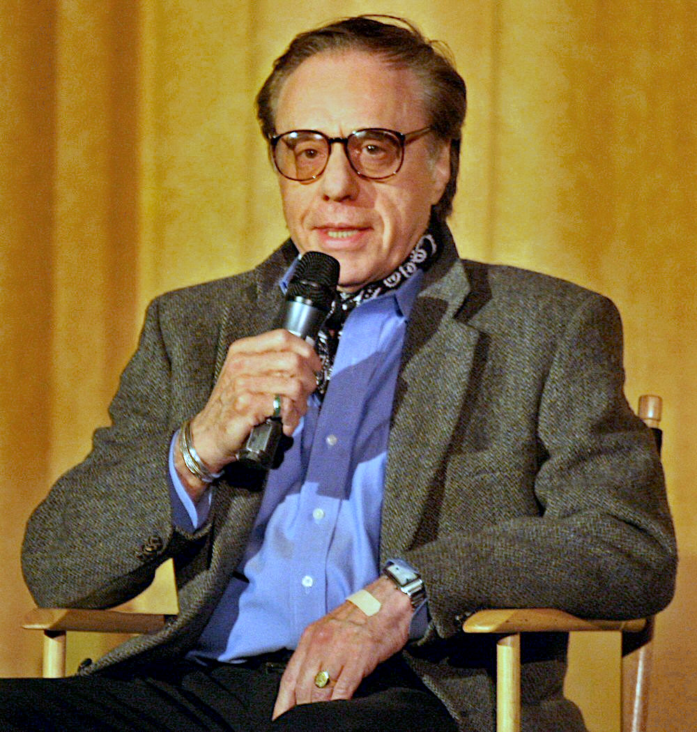 Peter Bogdanovich at the Castro Theatre in San Francisco